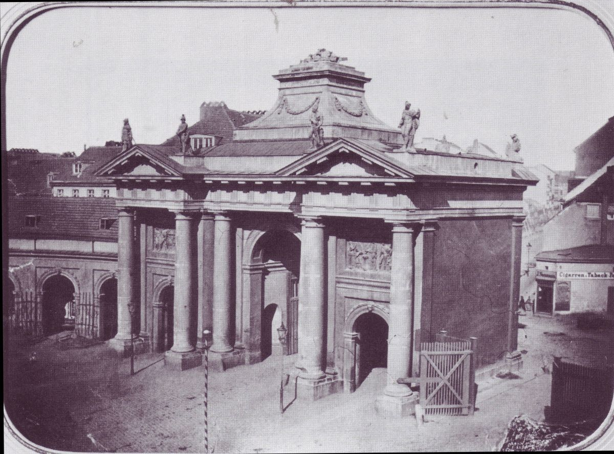 Rosenthaler Tor in Berlin, about 1860